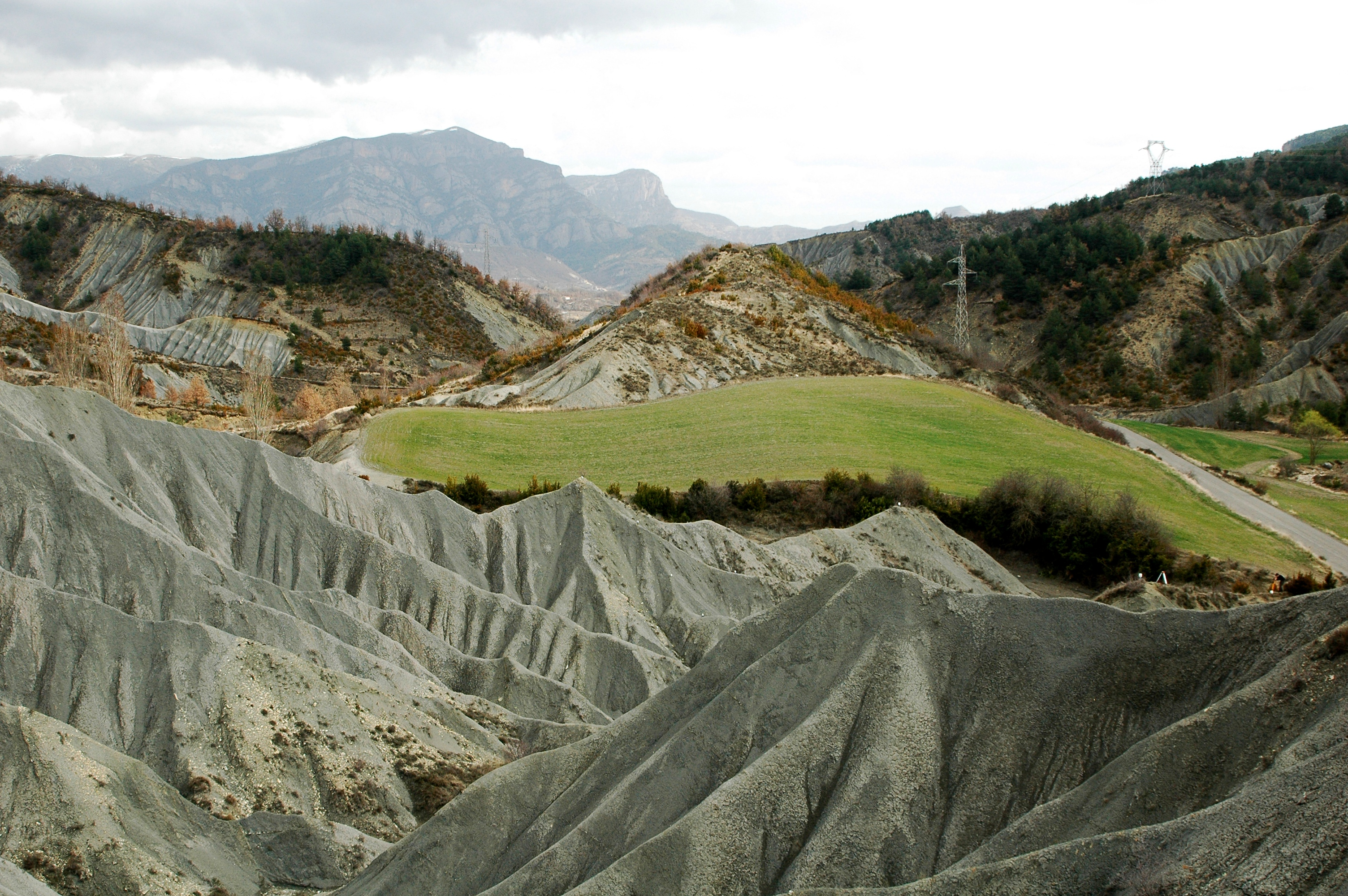 Badlands in the pre-pyrenees in the province of Huesco